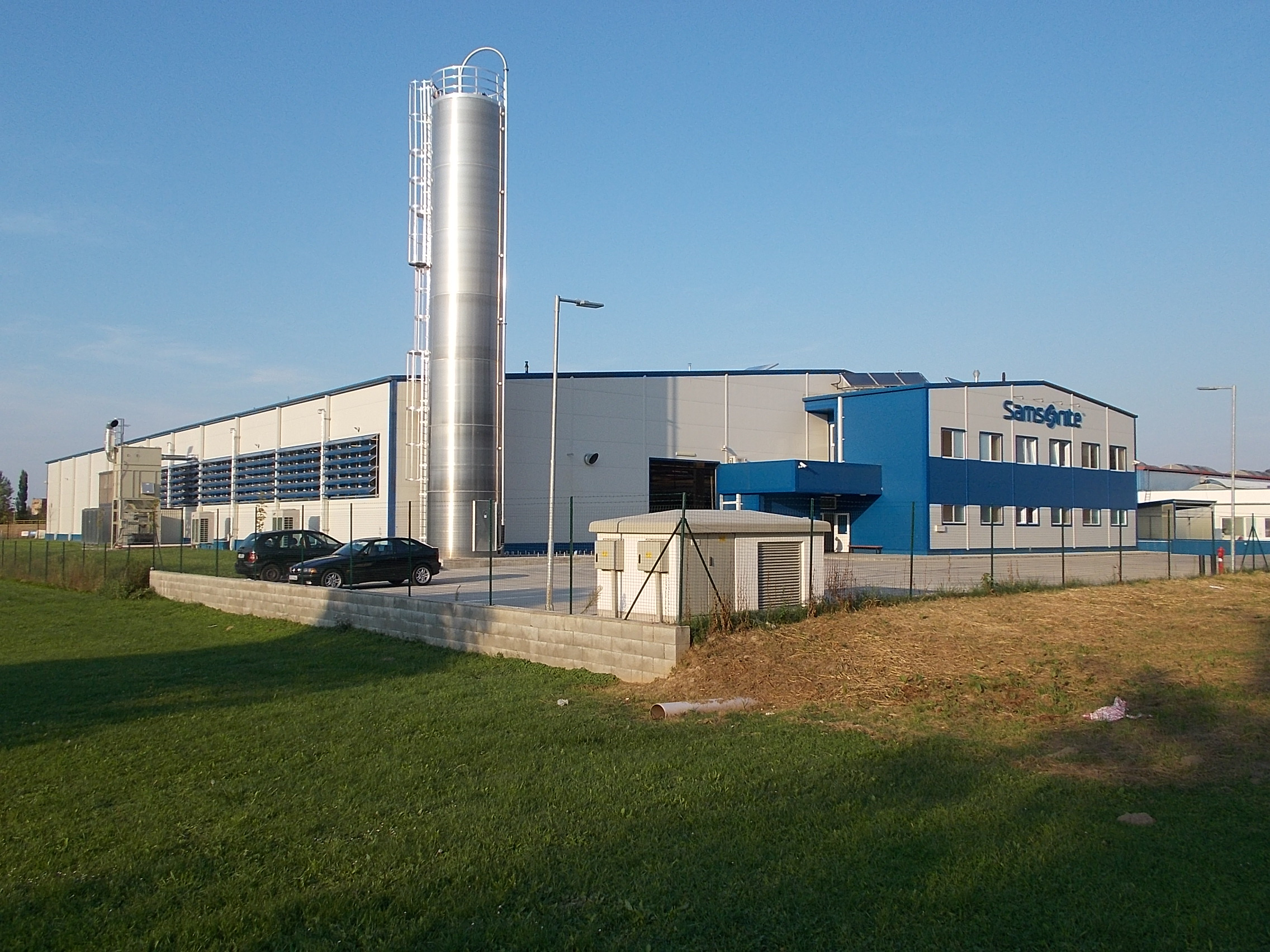 Samsonite Hungaria. - Keselyűsi Road Szekszárd, Tolna County, Hungary.